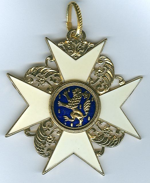 Commander's cossof the Order of the Golden Lion of Luxemburg and The Netherlands, before 1895. Private colection in Groningen.